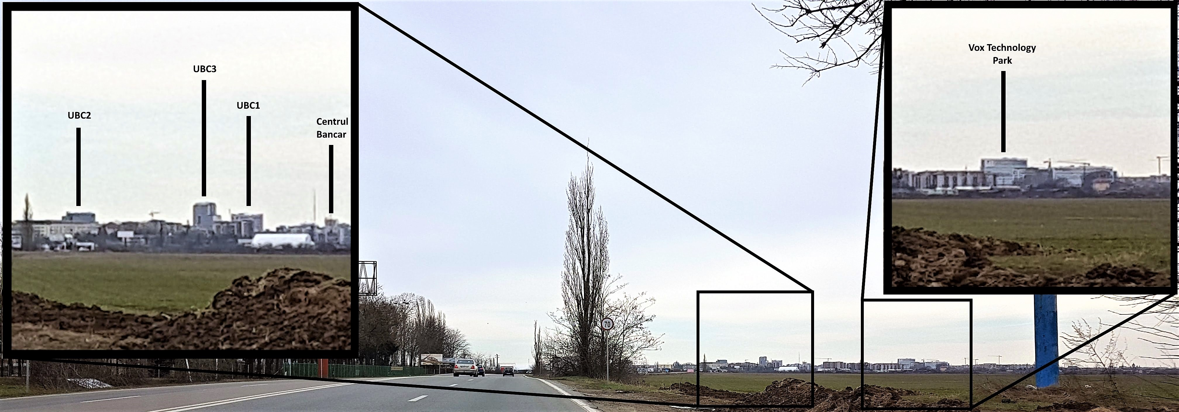 Timișoara Skyline from the north (Aradului)